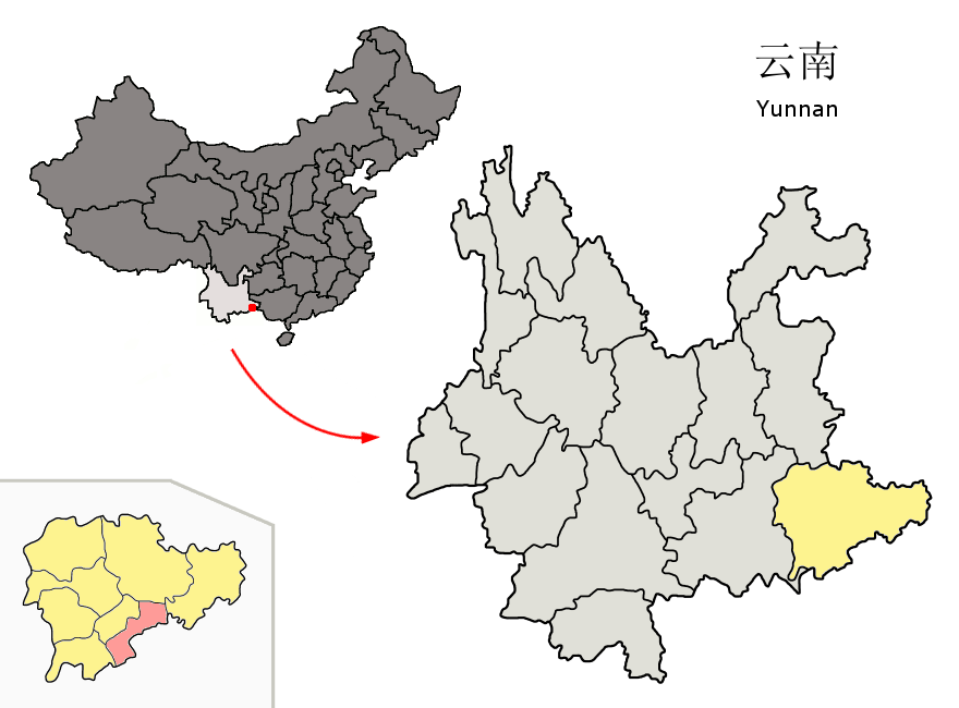 Location of Malipo County (pink) and Wenshan Prefecture (yellow) within Yunnan province of China Map drawn in october 2007 using various sources, mainly : Yunnan province administrative regions GIS data: 1:1M, County level, 1990 Yunnan Counties map from